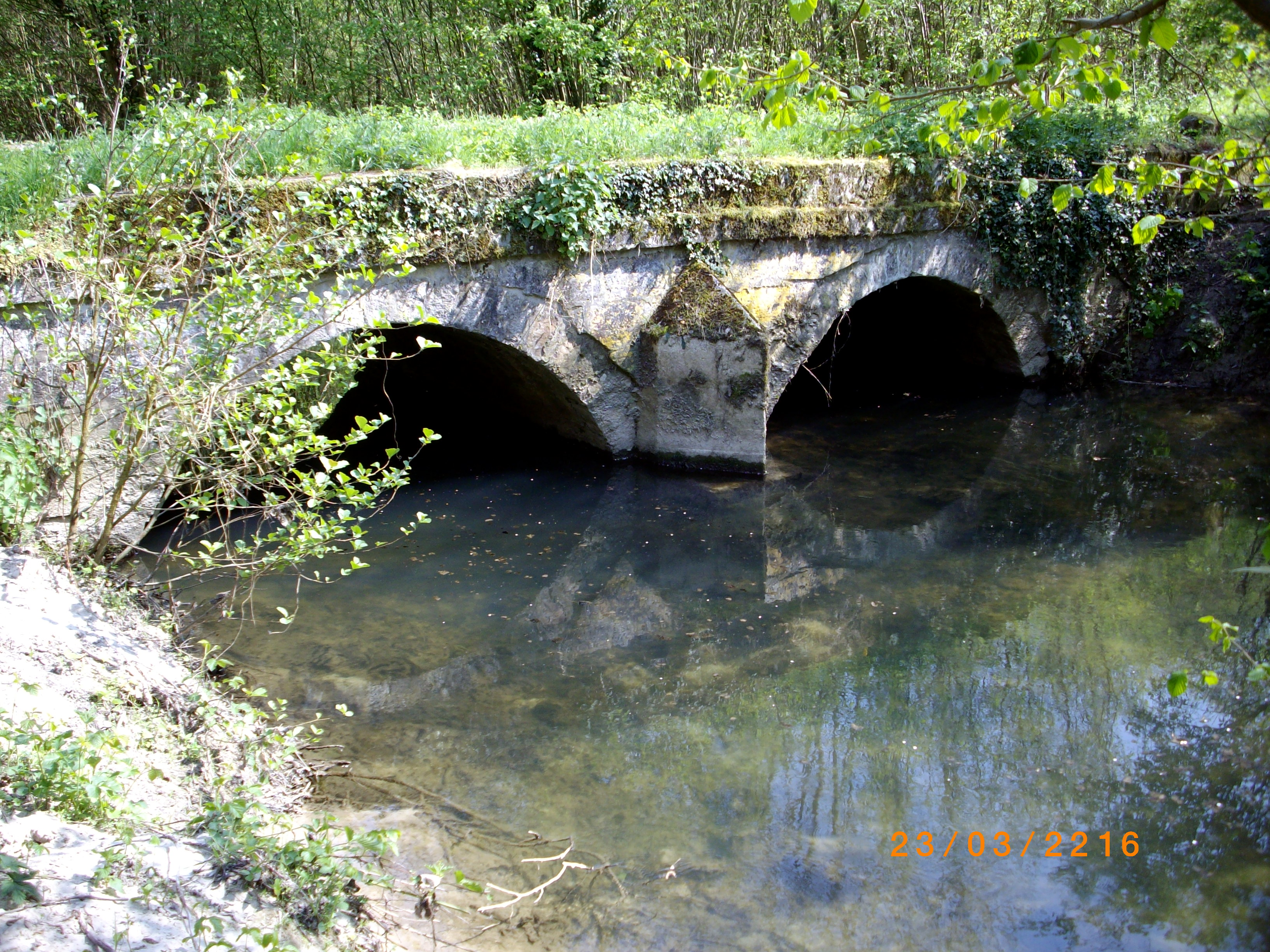 View of one of the two Ponts Bernard (Bernard bridges), located in Breny and Armentières-sur-Ourcq (Aisne department, France) on the Ourcq river. 17th-18th century, may be earlier.